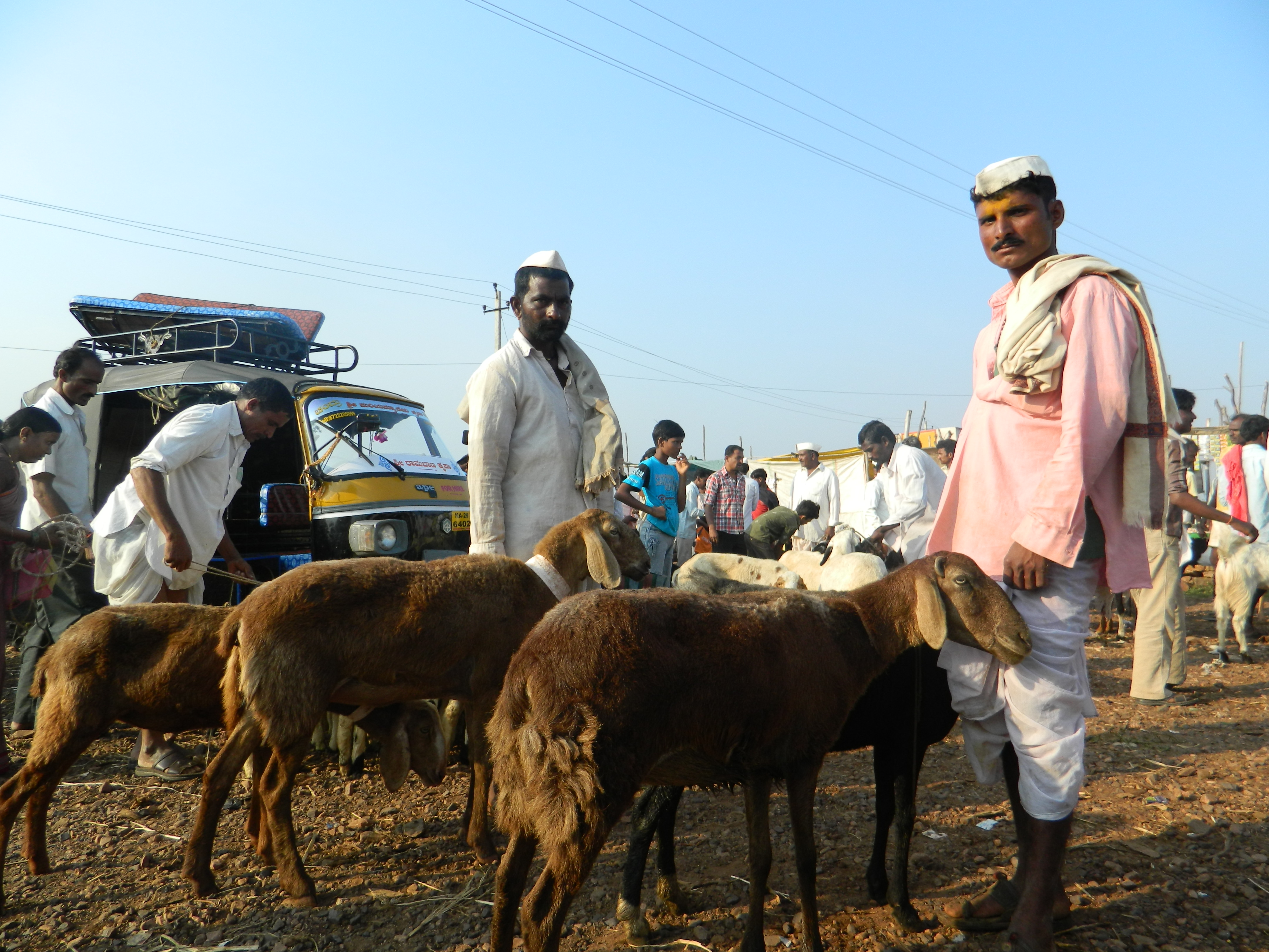 A market at Aihole near to Badami